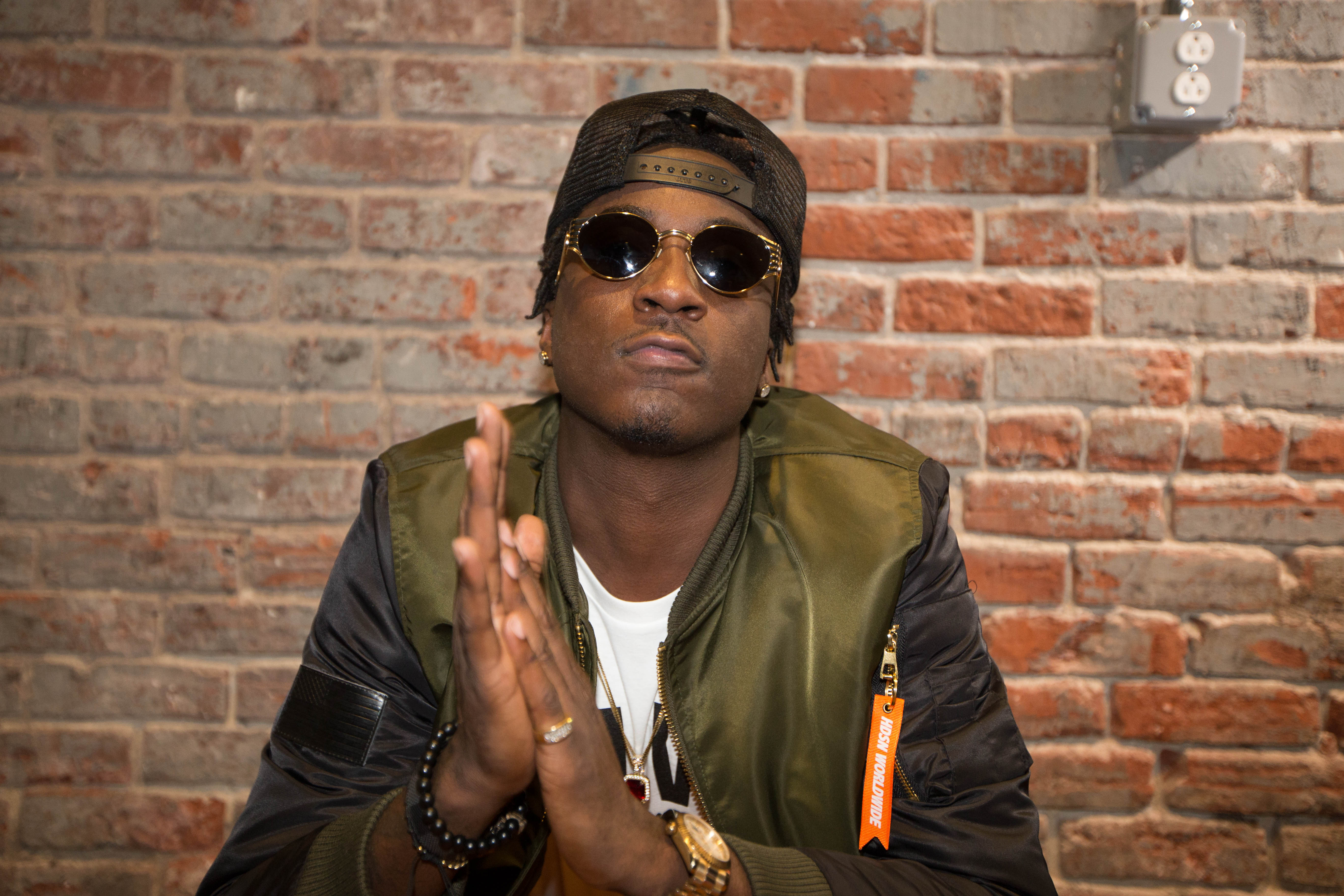 Profile image of K Camp